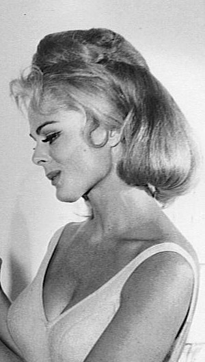 Photo of Dee Hartford as Miss Iceland from the television series Batman.